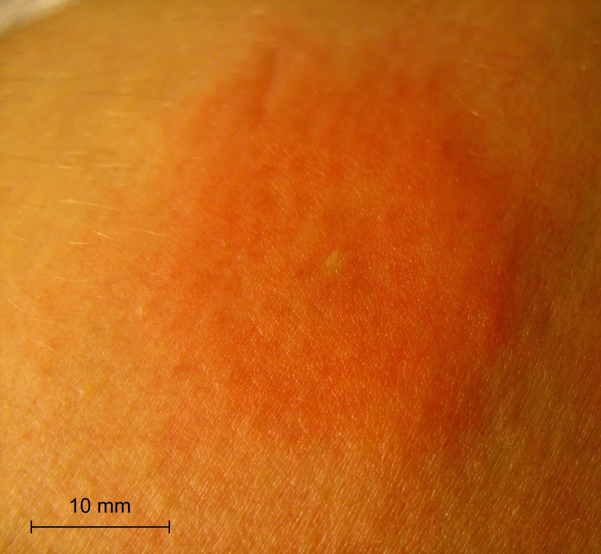 A sting of a black bee (Apis mellifera mellifera) in the left arm, 1 day after.